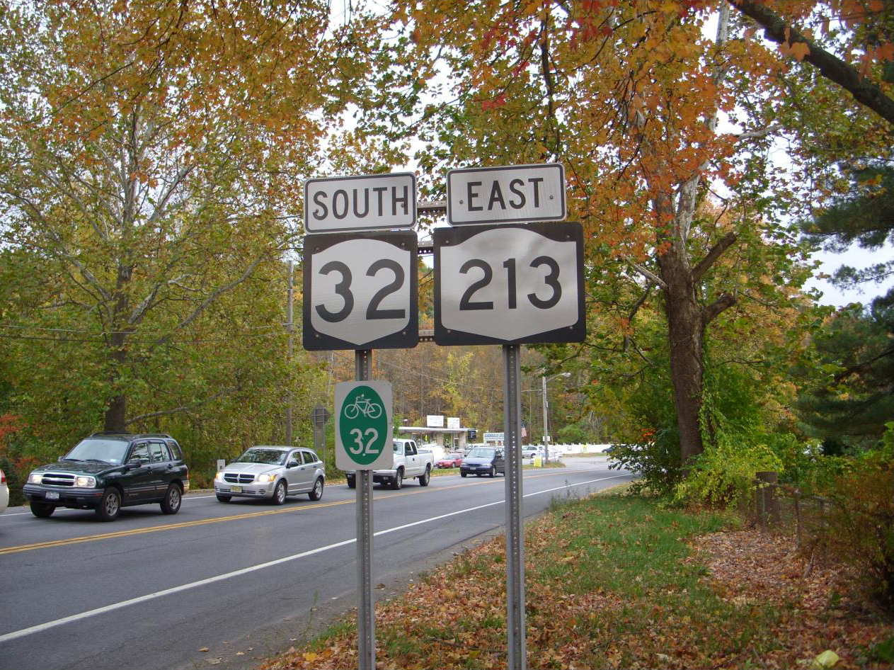 Concurrency signs along New York State Route 32 and New York State Route 213 in Rosendale.